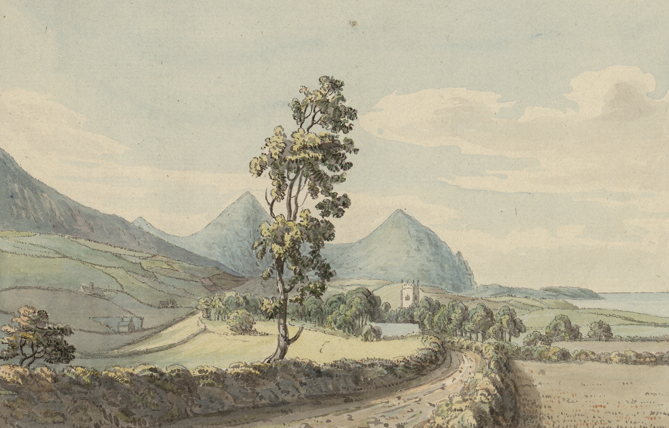 An image from a set of 8 extra-illustrated volumes of A tour in Wales by Thomas Pennant (1726-1798) that chronicle the three journeys he made through Wales between 1773 and 1776. These volumes are unique because they were compiled for Pennant's own library at Downing. This edition was produced in 1781. The volumes include a number of original drawings by Moses Griffiths, Ingleby and other well known artists of the period. Thomas Pennant (1726-1798)